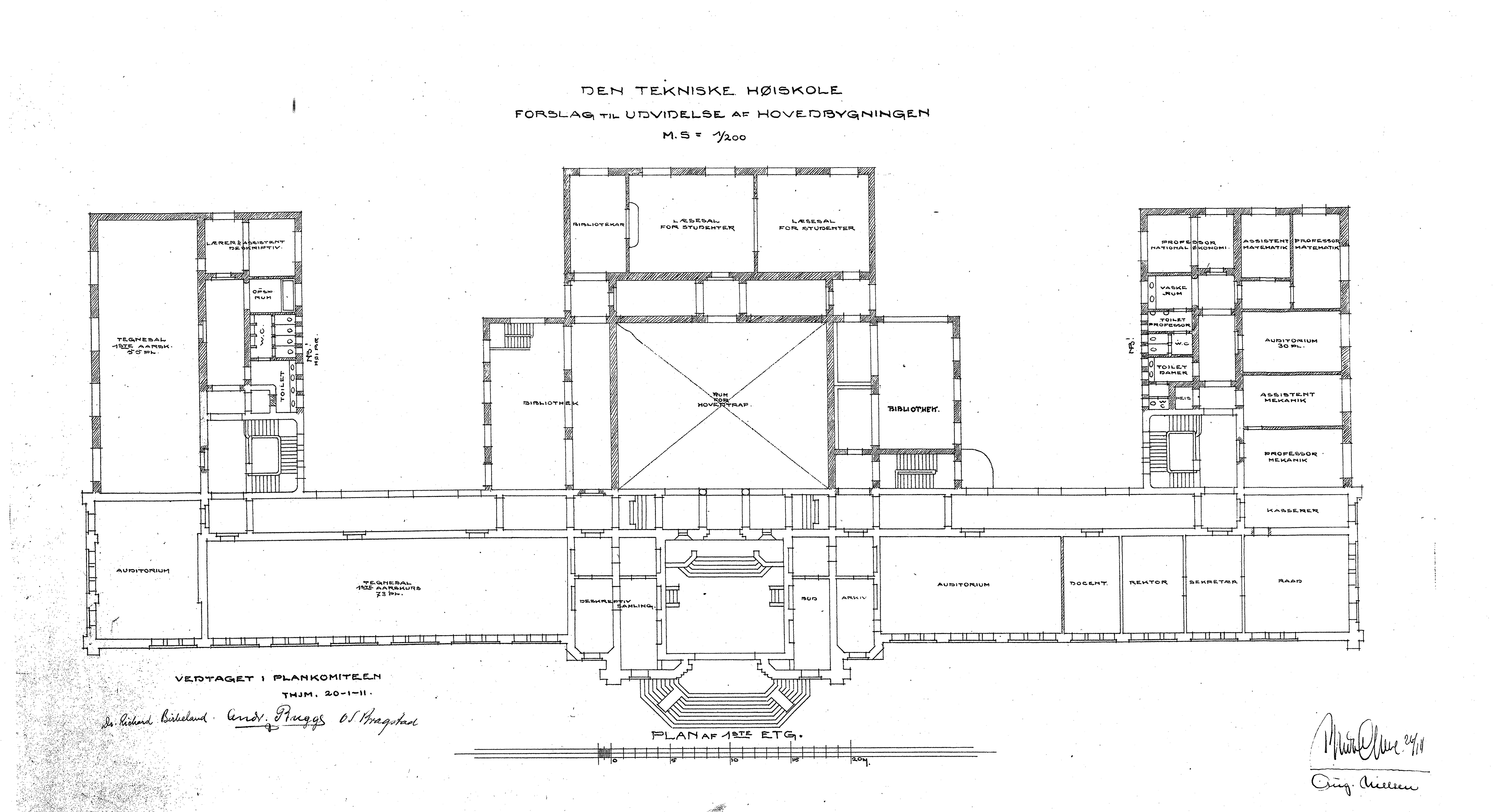 plan showing the ground floor of the main building at Campus NTNU Gløshaugen, Trondheim after expansion towards the South. The shaded parts of the walls show the expansion.